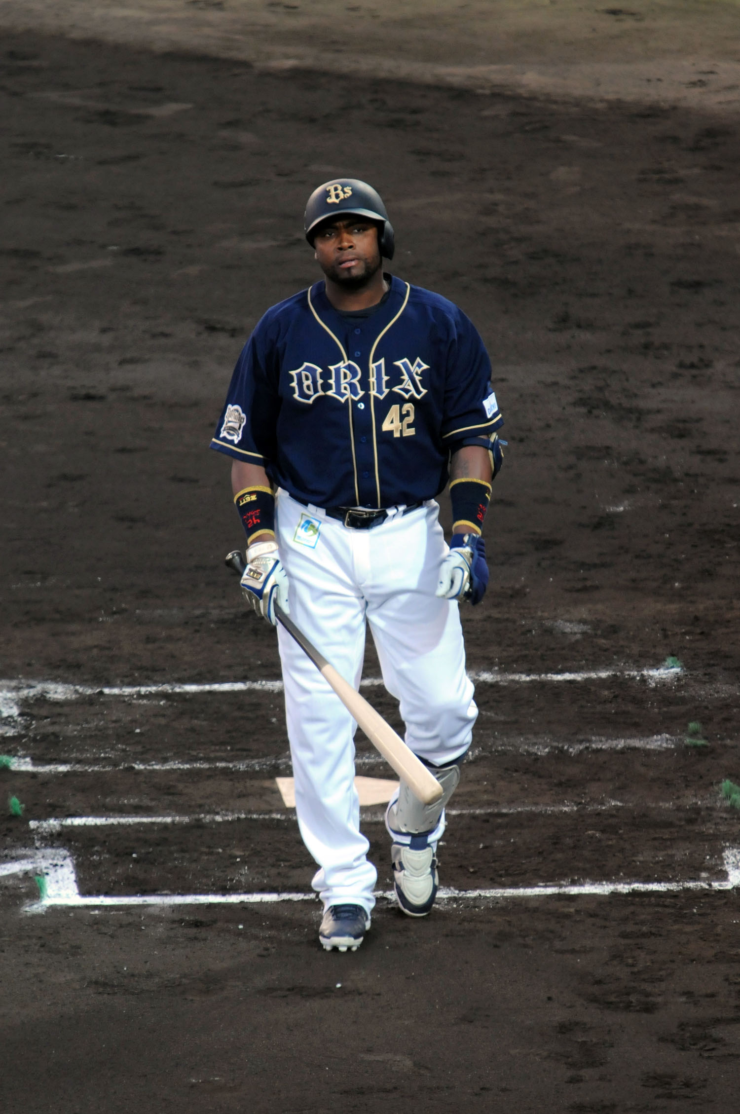 Tony Blanco, infielder of the Orix Buffaloes, at Akita Prefectural Baseball Stadium